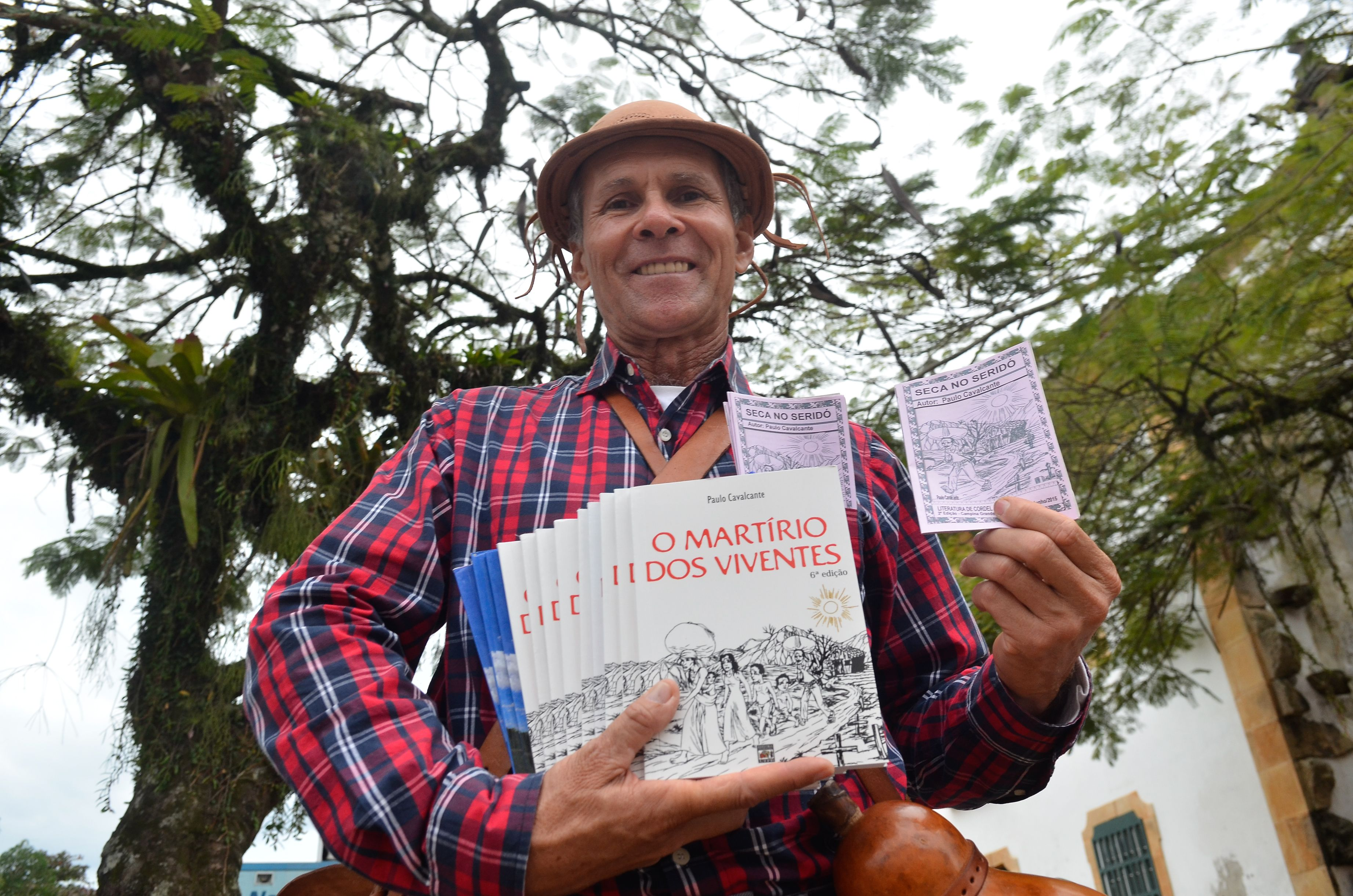 Photo by Tânia Rêgo/Agência Brasil CCBY3.0